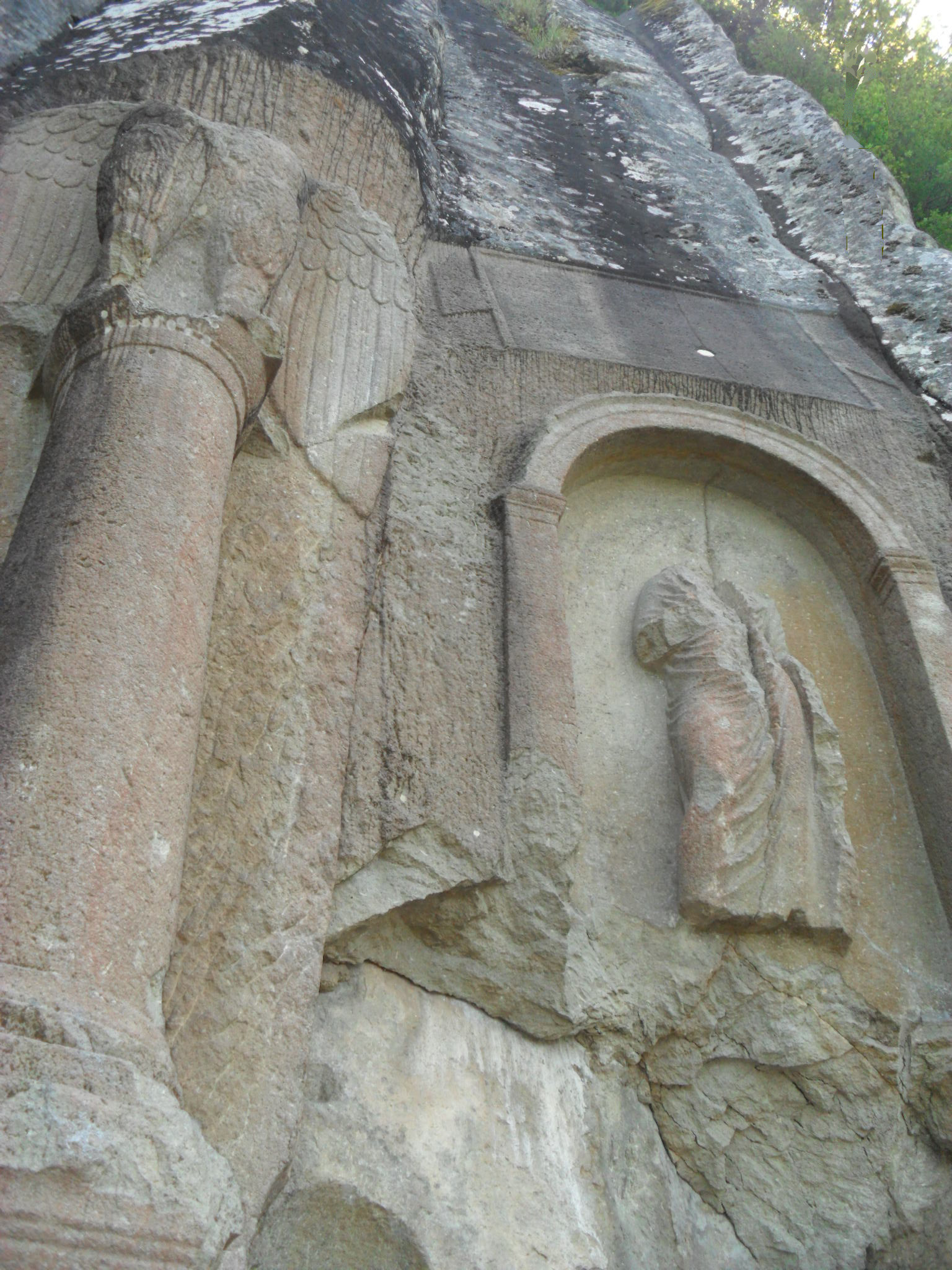 Kuşkayası